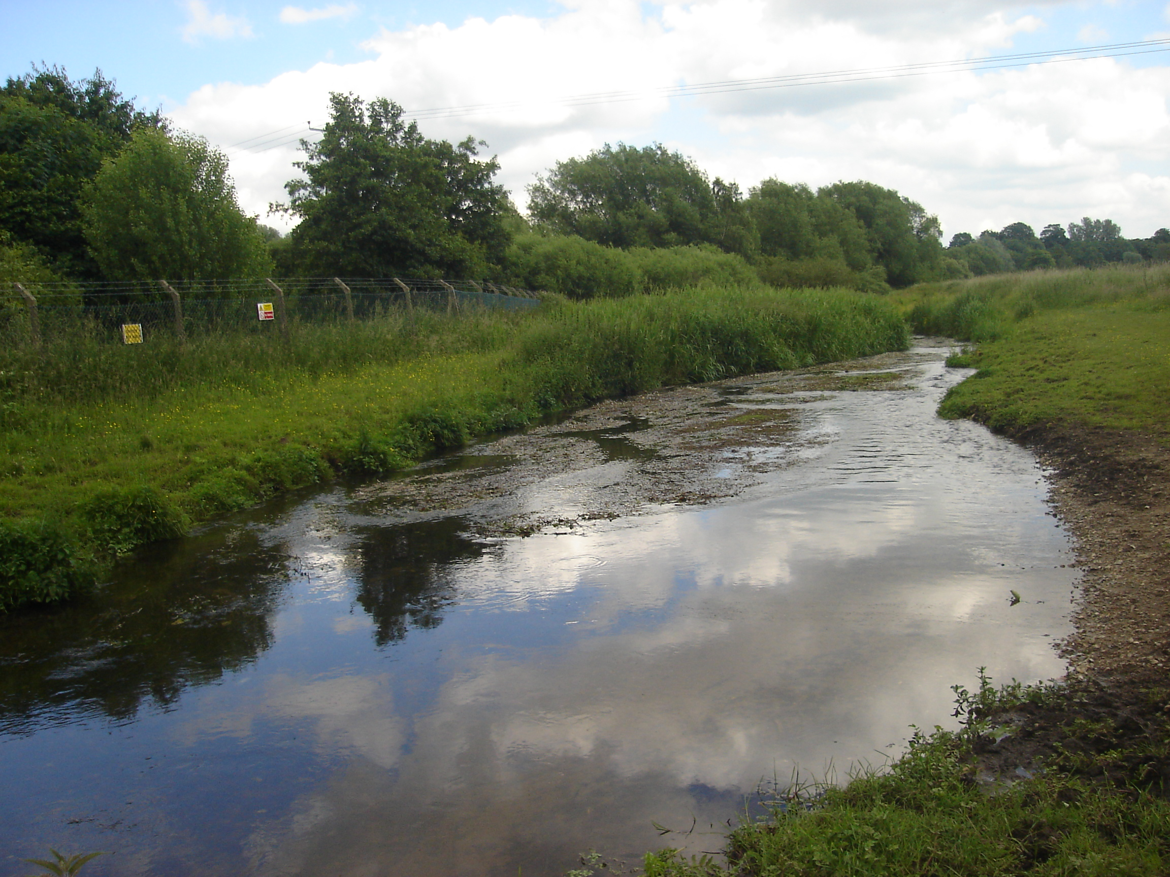 Picture of the River Tud, at Hellesdon, Norfolk